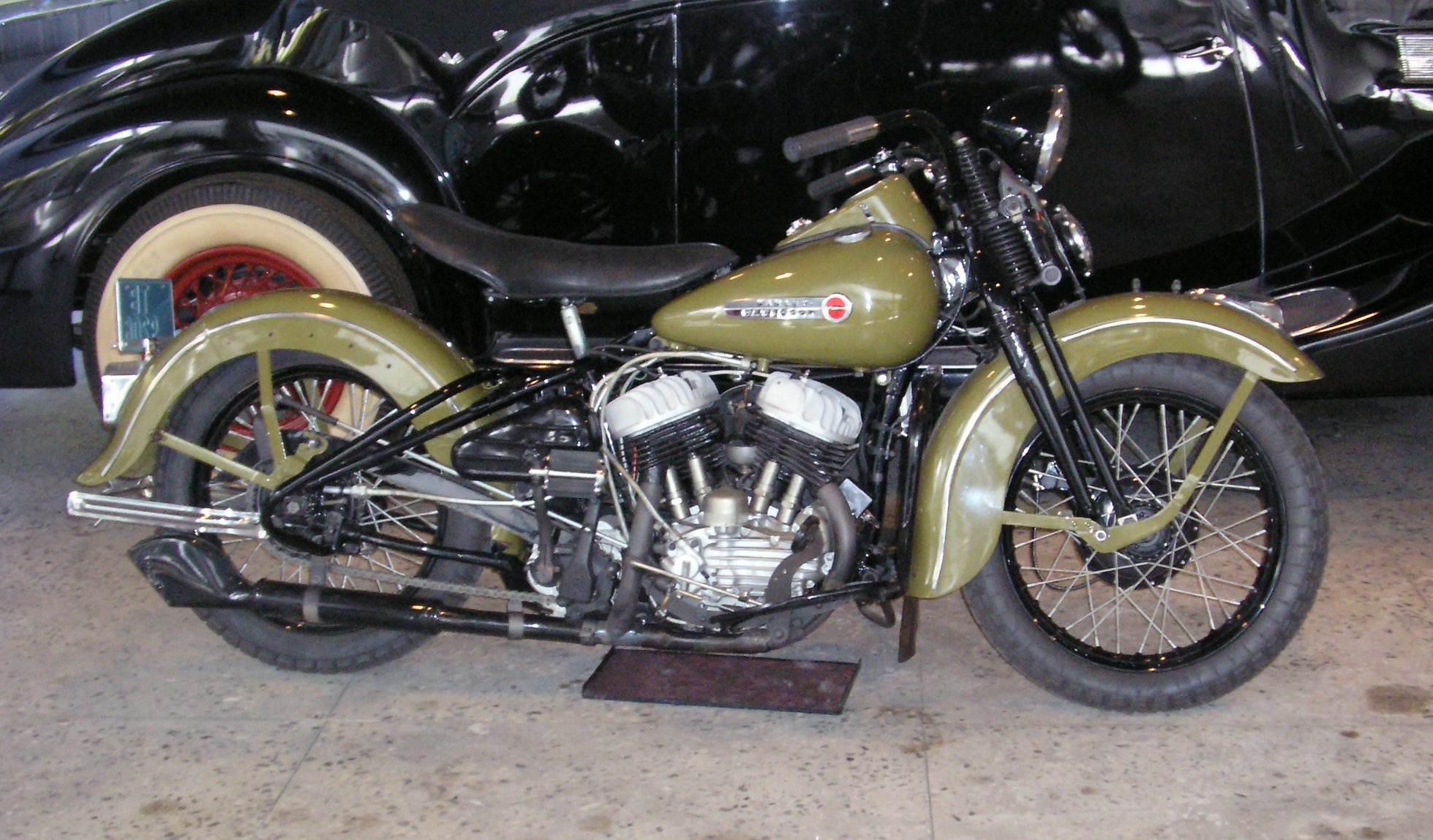 A 1947 Harley-Davidson mod. WL. 739 cc V2 engine giving 25 hp and a top speed of 99 km/h. Total weight: 267 kg.